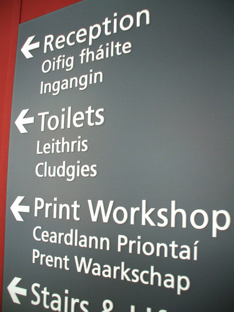 Looking for the "Cludgies"? This is a new one for me - its Ulster Scots for the toilets, seen at the Strule Arts Centre, Omagh.